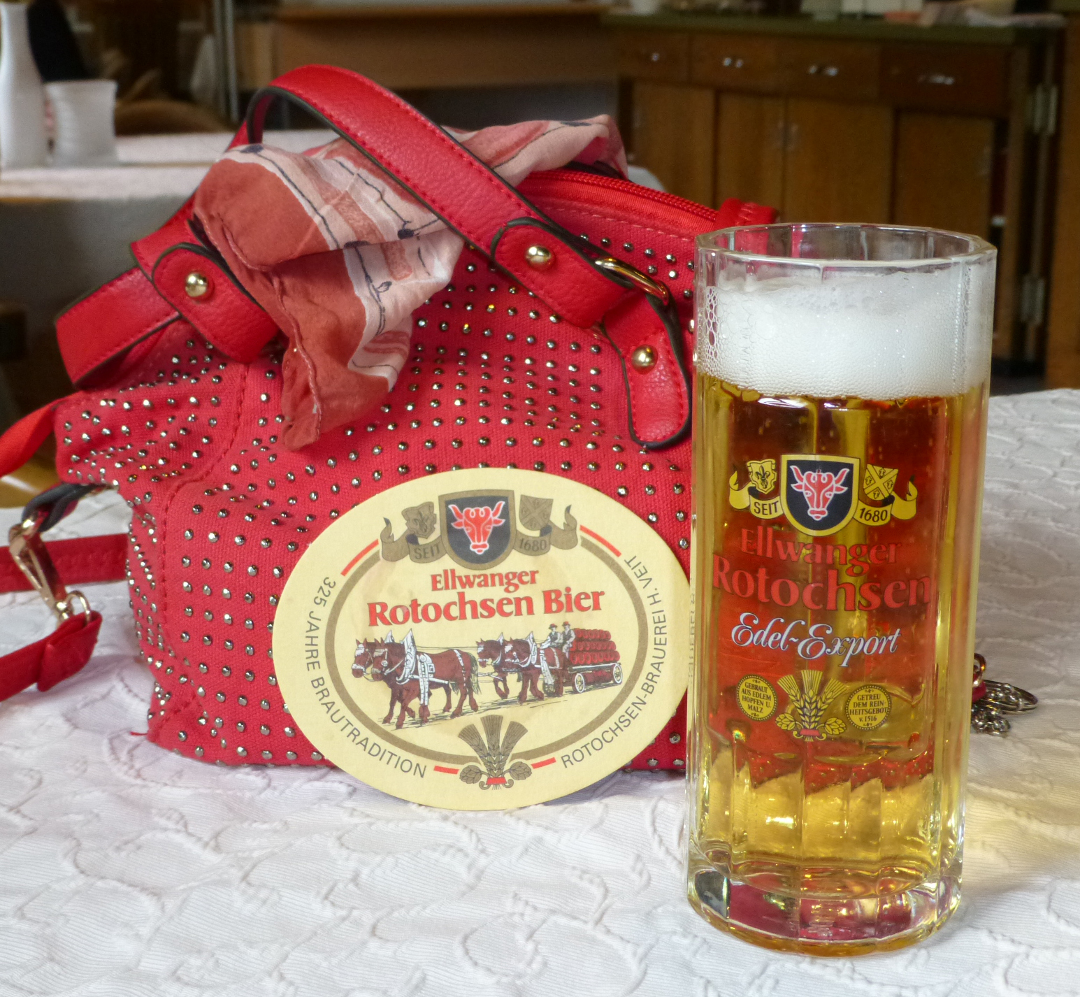 Ellwangen local beer, Wuerttemberg.